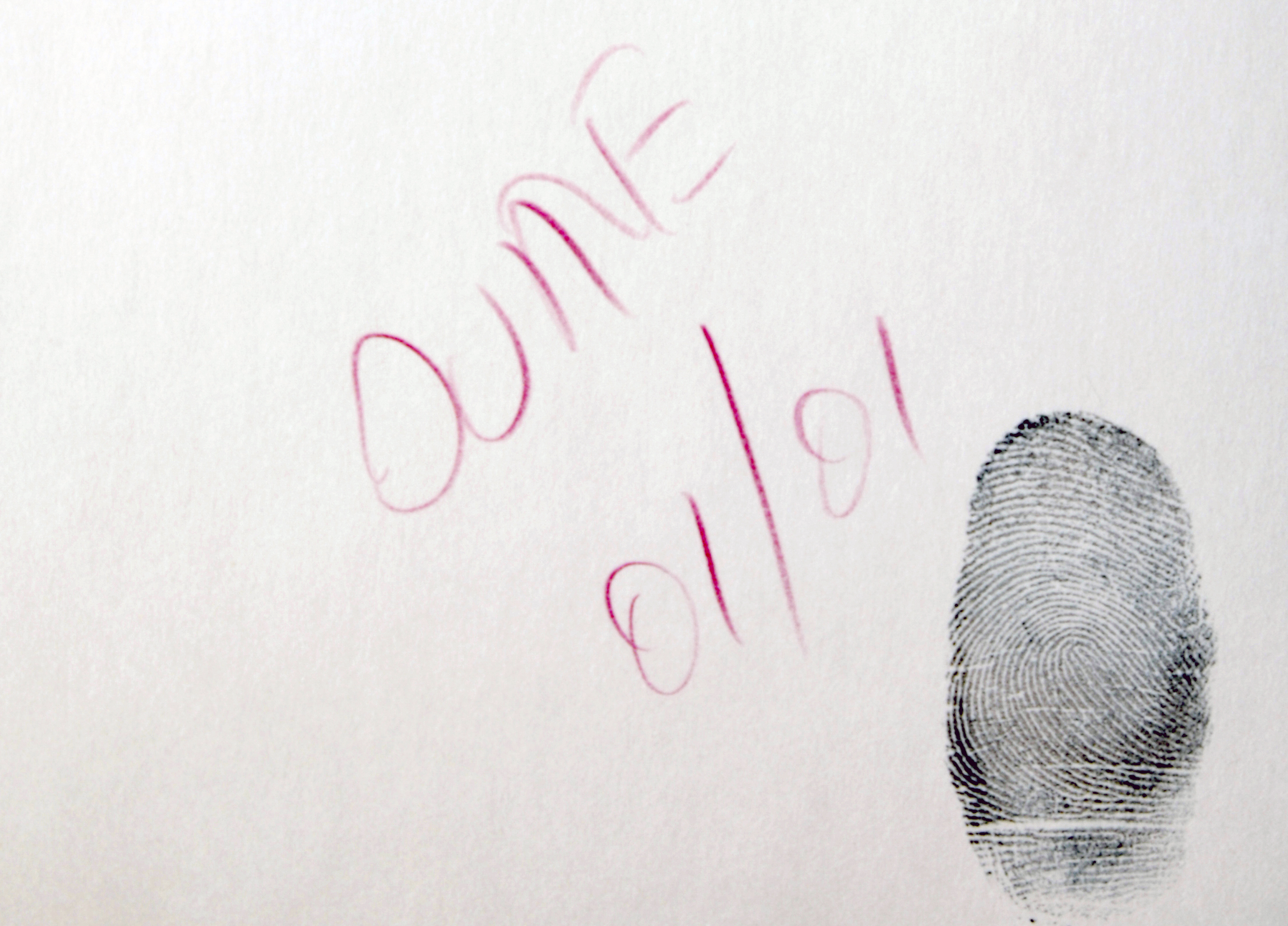 Signature of the Artist Sergio Valle Duarte that authenticates his works with his fingerprint on the back of the images, 1954...